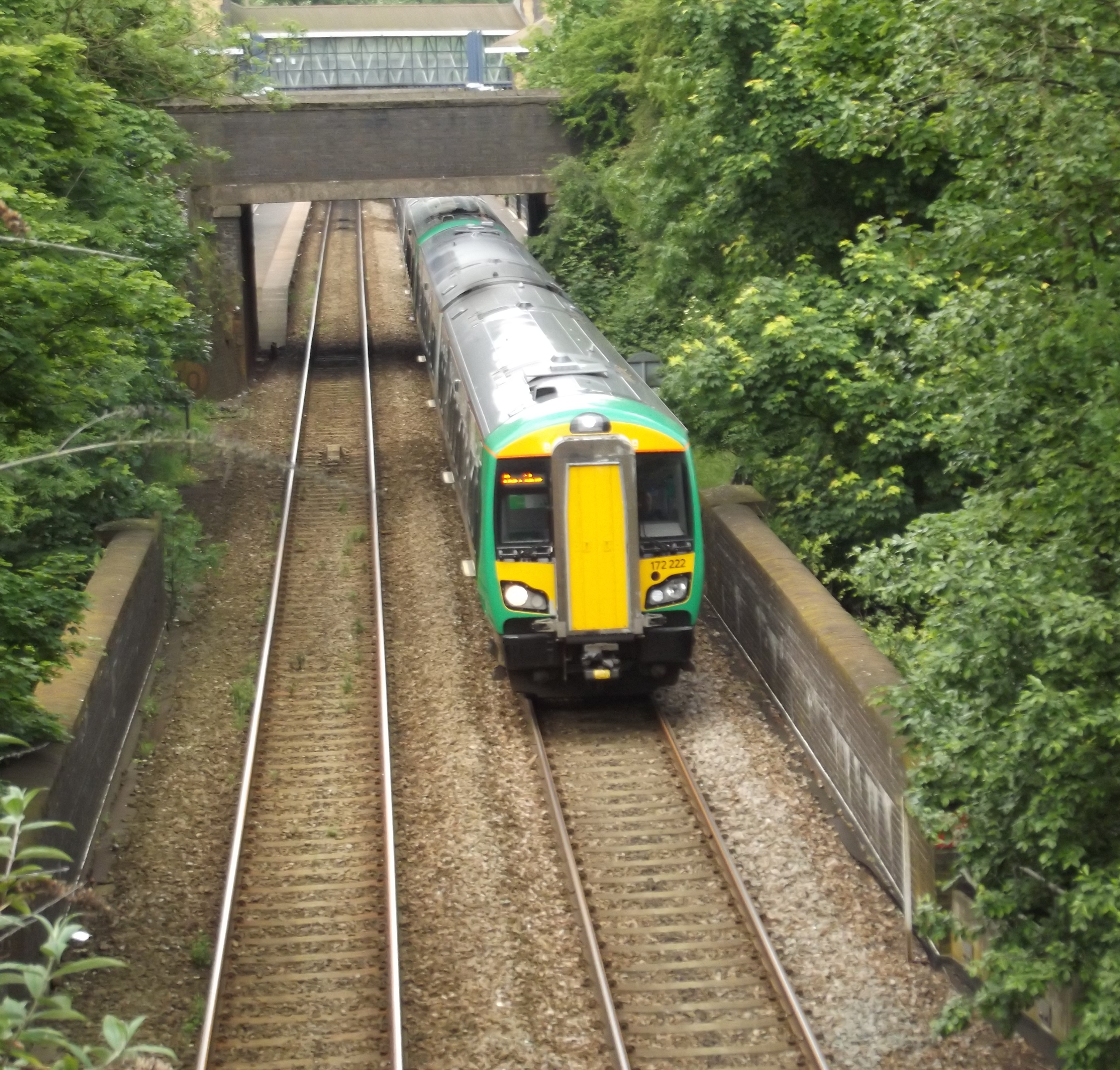 Another nice day in June free of rain, so I decided to try my new Fujifilm FinePix S2980 out at Smethwick Galton Bridge (including the railway, bridges and canals). Smethwick Galton Bridge Station from near the historic Galton Bridge. Bridge over another section of the Jewellery Line out of Smethwick Galton Bridge High Level. London Midland Class 172 (172 222) at the station, before heading towards The Hawthorns.